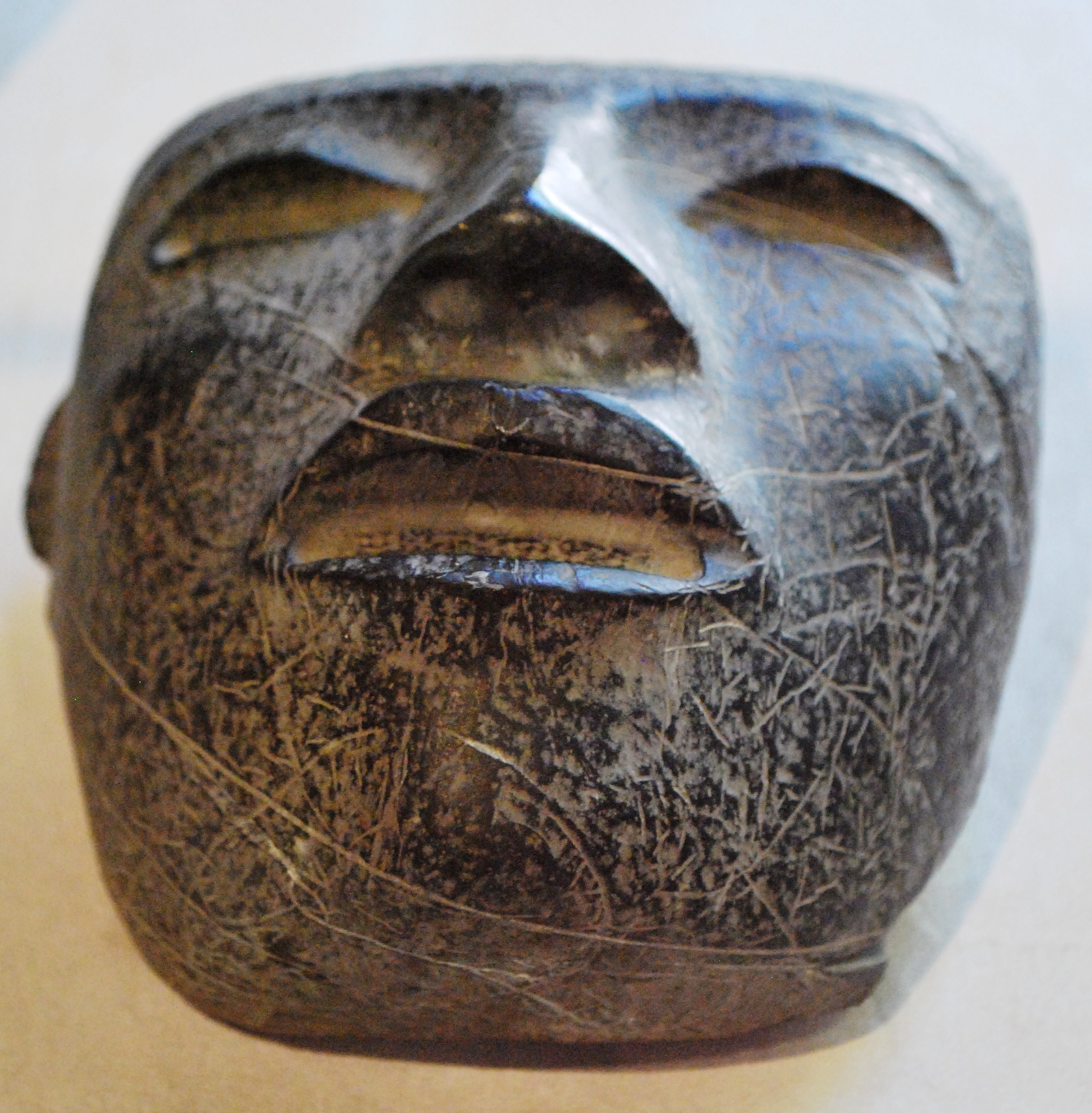 Classic era obsidian mask from La Herradura at the Tlaxcala Regional Museum